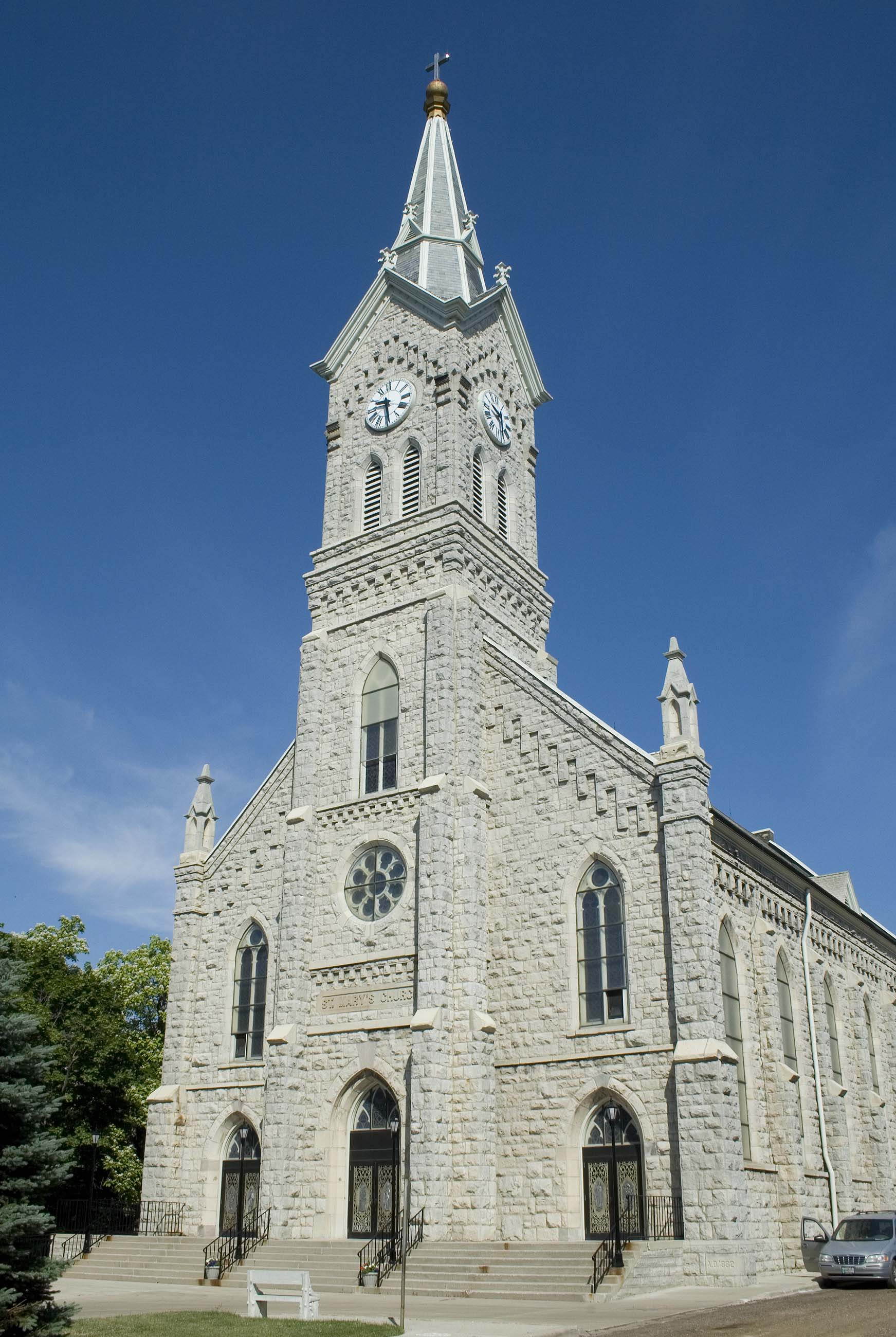 St. Mary's Roman Catholic Church. Registered Historic Place, Port Washington, Wisconsin.